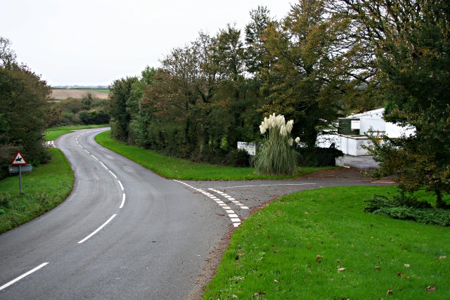 The Road through Cambrose Cambrose is a hamlet to the east of Portreath. On the right of the photo is the entrance to a holiday caravan park.